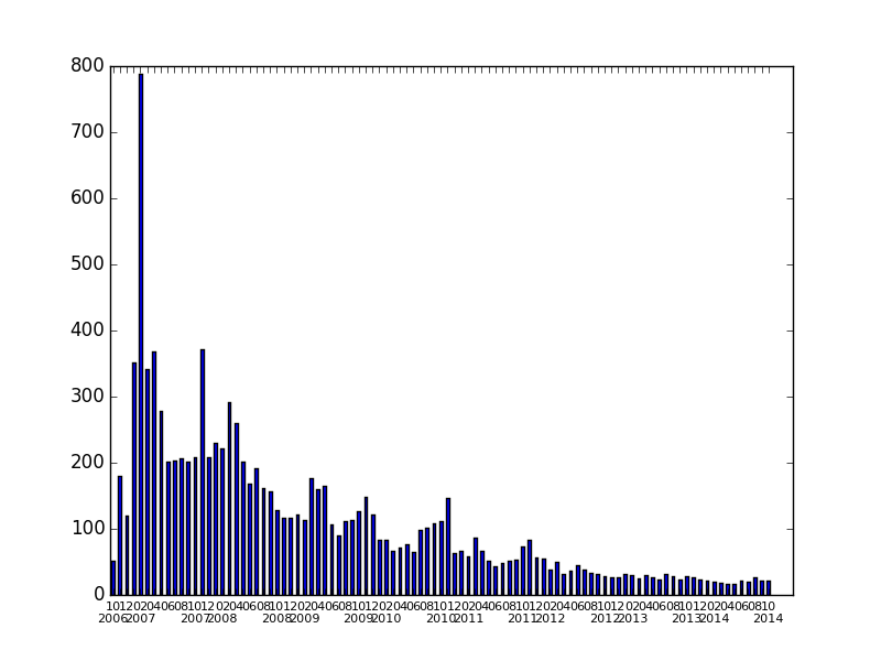 Citizendium statistics graph, the number of editing users each month